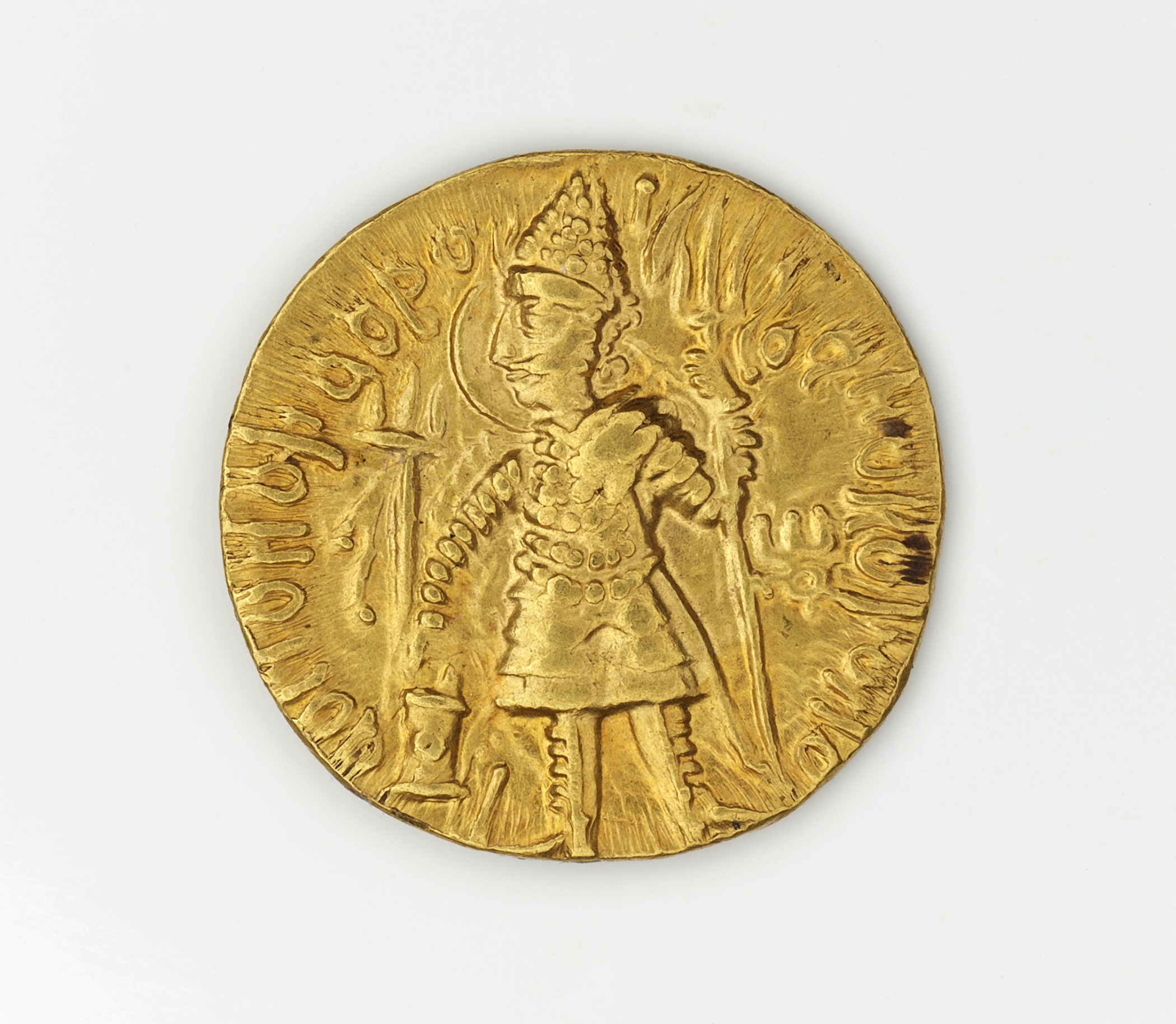 India, circa 230-260 Tools and Equipment; coins Gold Gift of Dr. and Mrs. A. J. Montanari (M.77.56.16) South and Southeast Asian Art